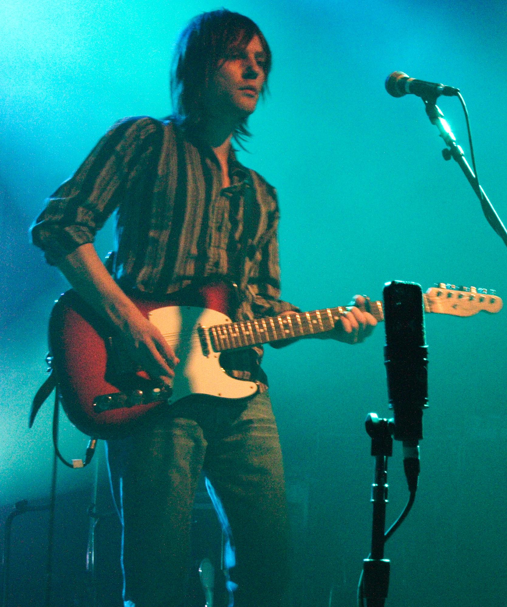 Bobby Kildea of Belle & Sebastian performing on March 02, 2006 at the Nokia Theatre in Times Square.